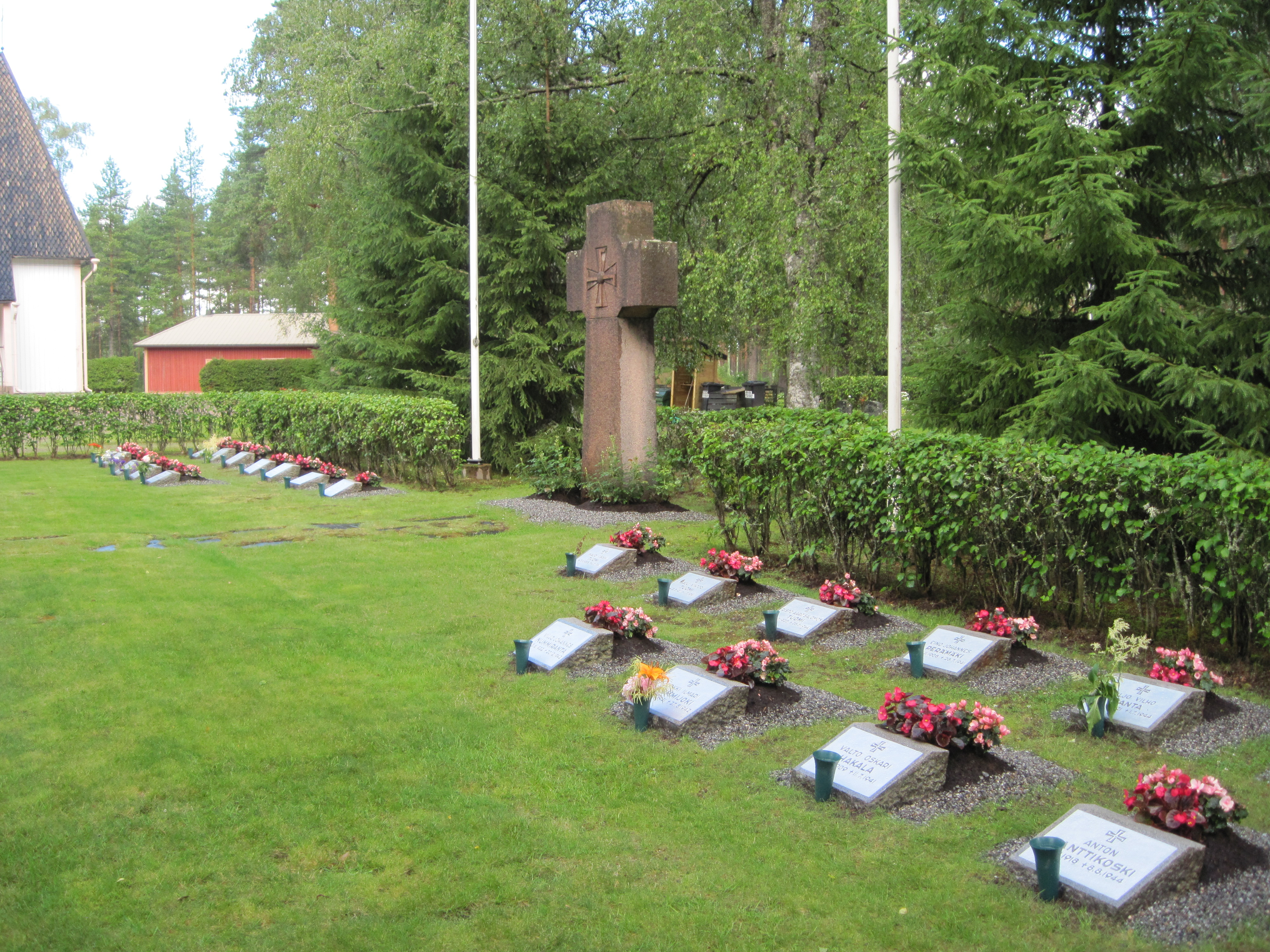 Military cemetary at church in Nummijärvi, Finland